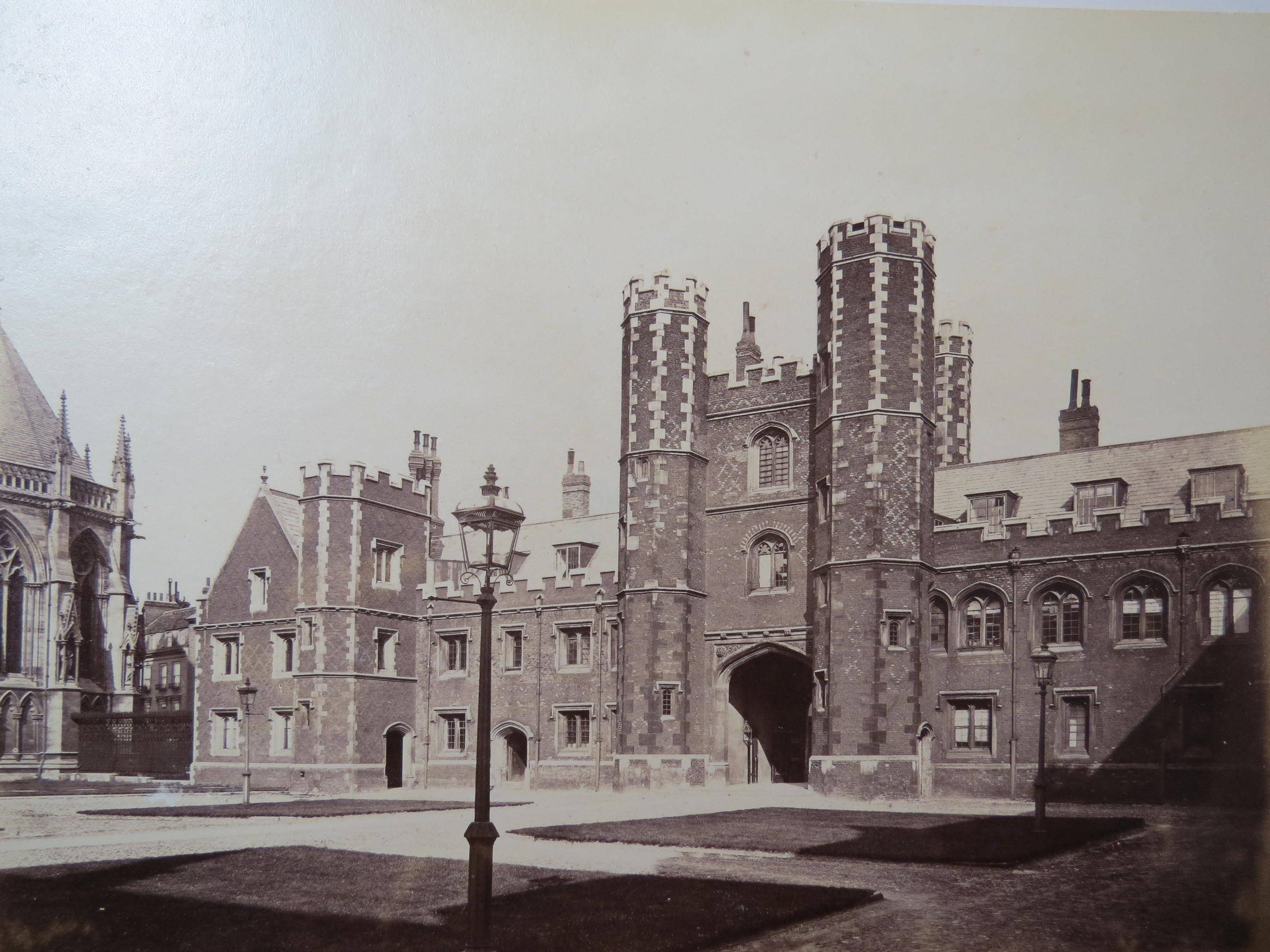 St. John's College, Cambridge University. First Court, looking towards the gatehouse, circa 1870. Image taken from original albumen print from a bound album of 58 Cambridge University photographs. Original 19th century album in the possession of Kimberly Blaker, New Boston Fine and Rare Books.